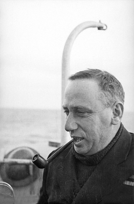 Informal portrait of Captain Hector Macdonald Laws (Hec) Waller DSO RAN, smoking a pipe on the bridge of HMAS Stuart. Captain Waller, took command of HMAS Perth on 24 October 1941. On the night of 28 February 1942 the Australian cruiser HMAS Perth, together with the USS Houston, encountered a large Japanese force near Batavia (now Jakarta). By chance, the two cruisers had met the Japanese invasion force assigned to western Java. A fierce five-hour fight ensued until, out-numbered and out-gunned, HMAS Perth was sunk at about 12.25 am on 1 March after being struck by five torpedoes and a number of shells. The Houston, still fighting but ablaze, was also hit by torpedoes and sank shortly afterwards. Of the Perth's company of 686, only 218 (including one civilian and two RAAF personnel) were ever to return to Australia; the remainder were killed during, or soon after the action, or died as prisoners of war. Captain Waller was lost with his ship.